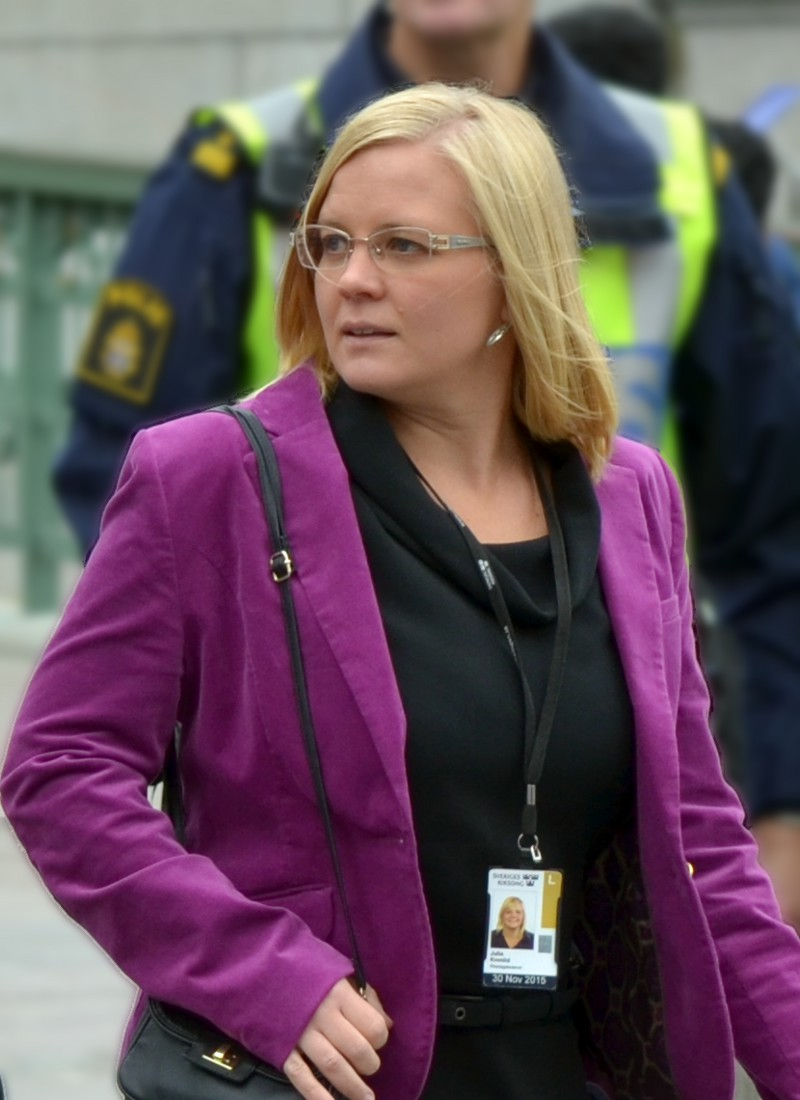 Julia Kronlid, member of the Riksdag for the Sweden Democratic Party.